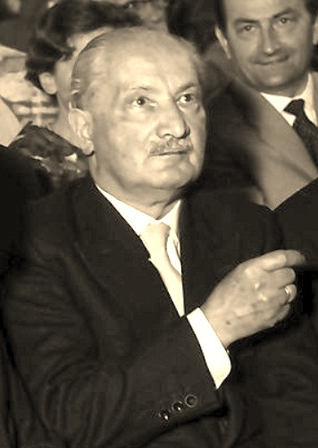 Martin Heidegger Color Photograph. Detail of a phototograph entitled : "W 134 Nr. 060678b - Hausen: Festakt, in der Reihe, Kultusminister Storz, Prof. Heidegger, Dichtel". Additional reference : Teilbestand W 134 (Neg. BaWü), Teil 1 - Fotosammlung Willy Pragher: Filmnegative Baden-Württemberg, Teil 1.